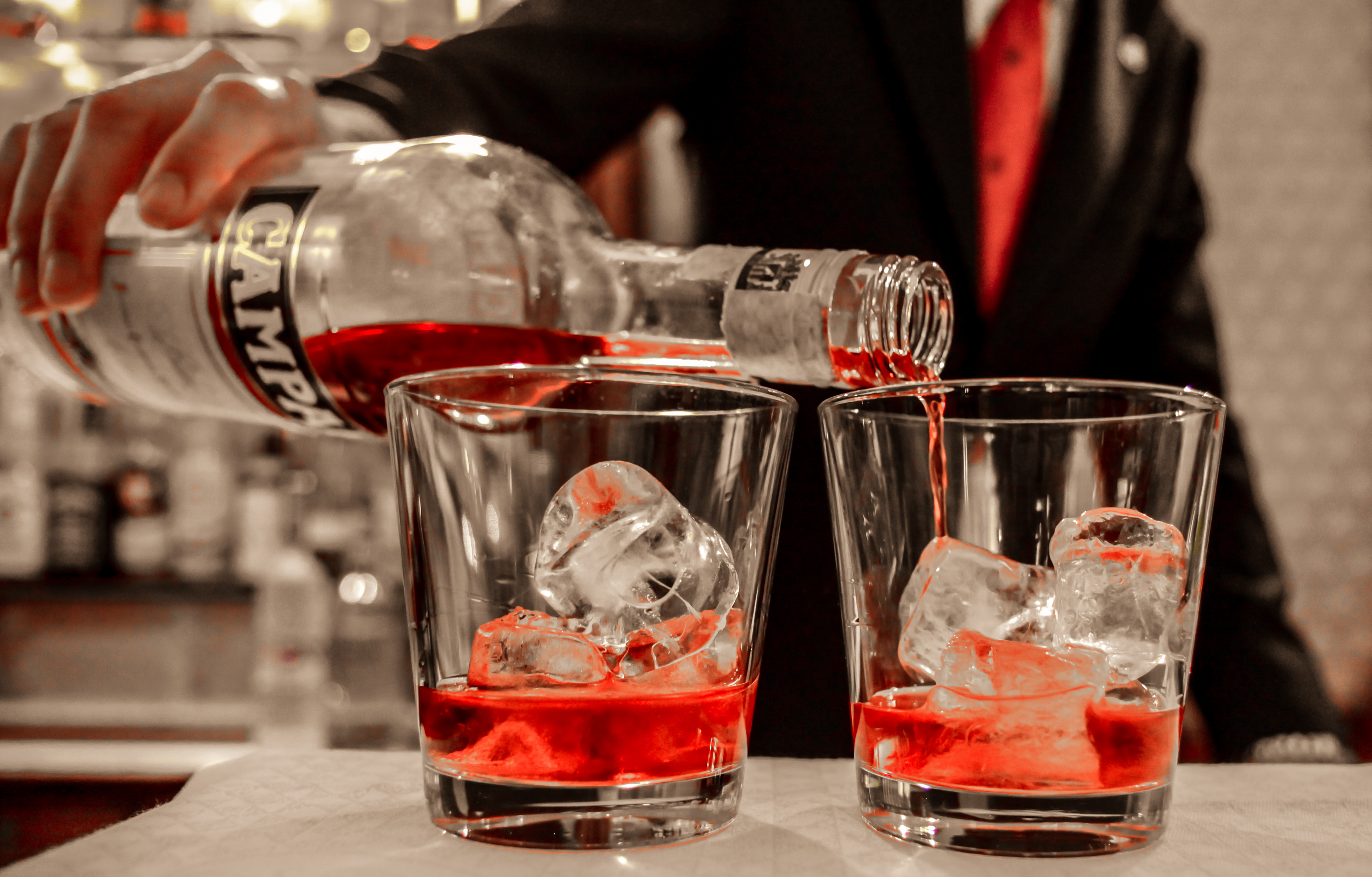 Two Camparis at the Florian in Venice